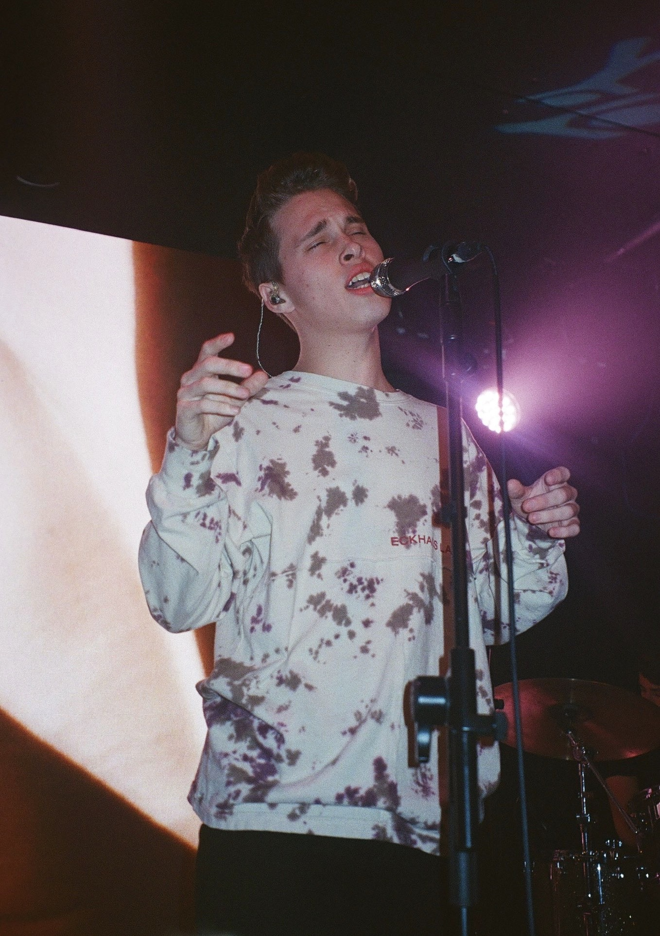 Ryan Beatty performing live in Los Angeles, January 2019